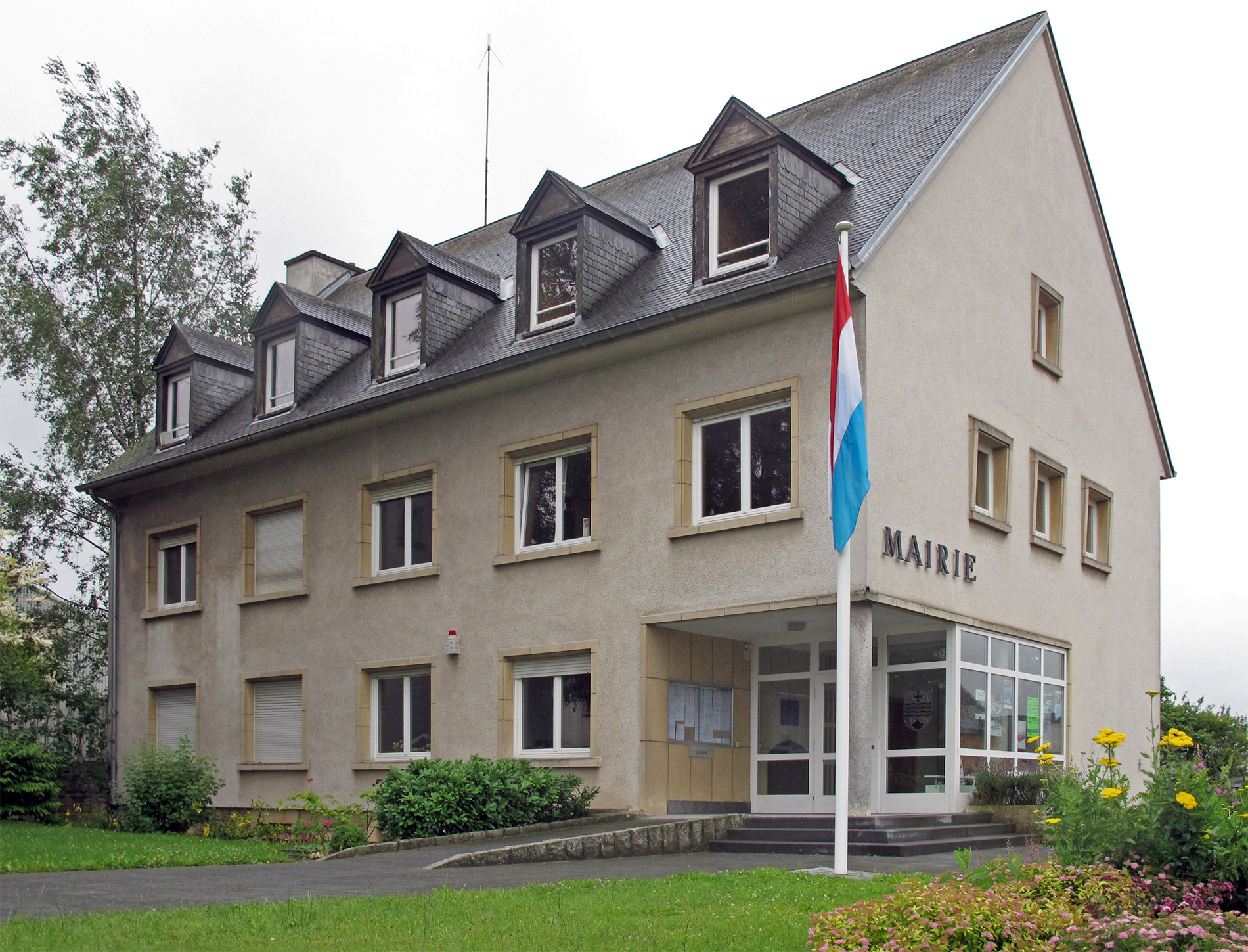 Town hall of Contern, Luxembourg